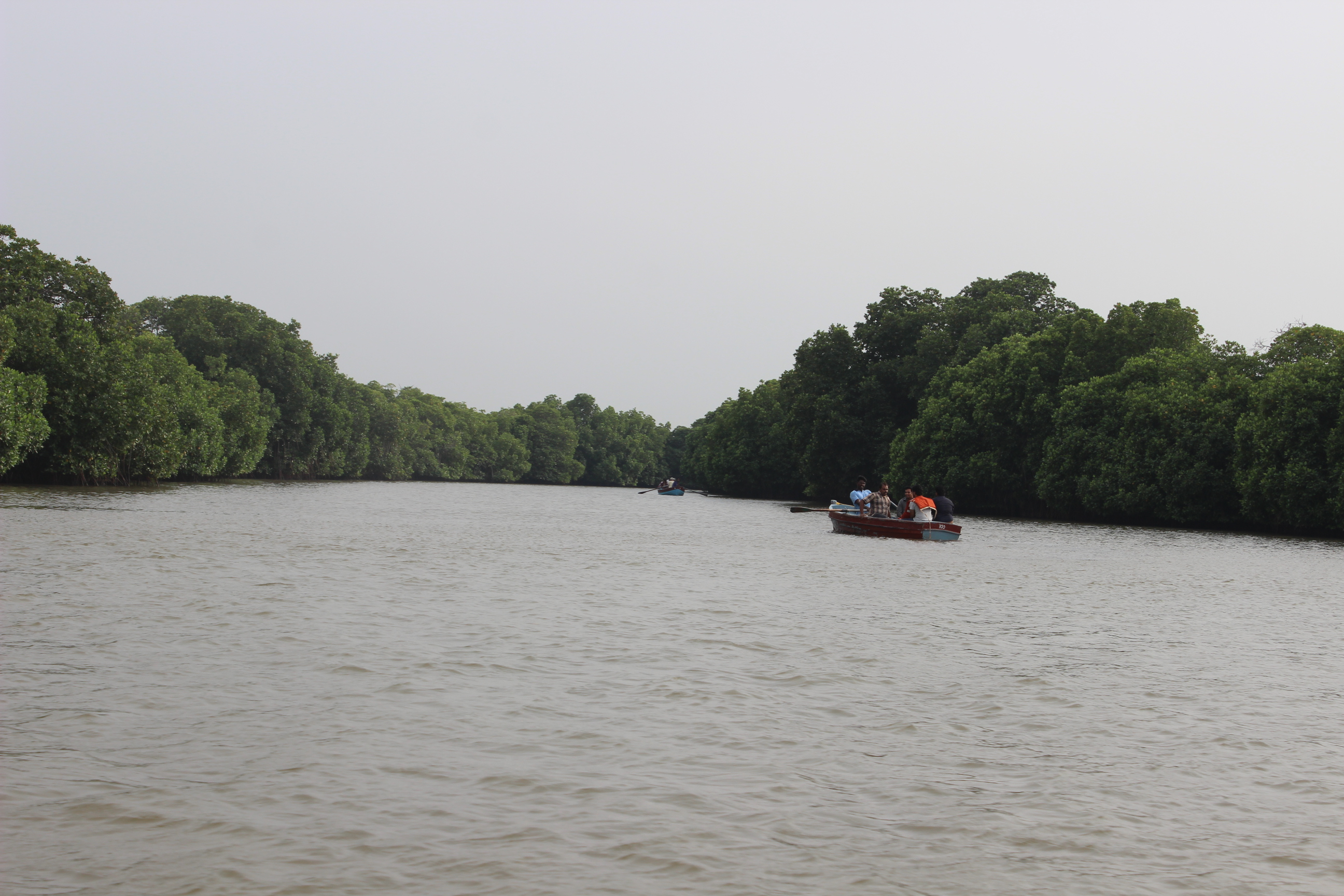 Pichavaram Mangrove Forest is world's second largest mangrove forest